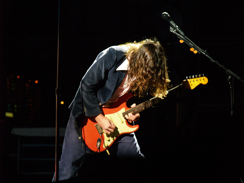 Red Hot Chili Peppers perform at Voodoo Music Experience 2006, New Orleans